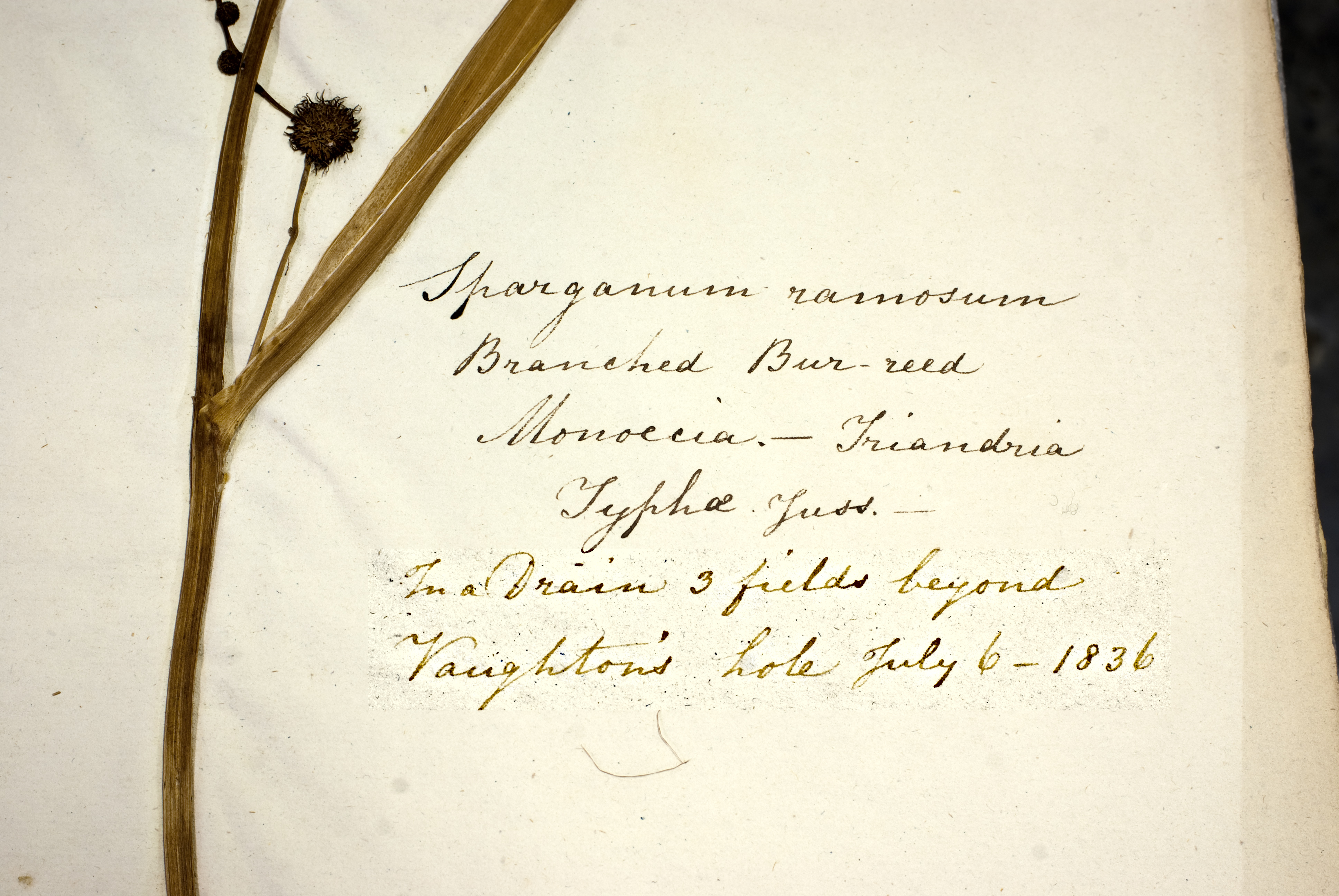 Sample of the botanist William Ick's handwriting, from a herbarium sheet held in Birmingham Museums. Sparganium ramosum is a synonym for Sparganium erectum. Vaughton's Hole was an area of Birmingham, then in Warwickshire.